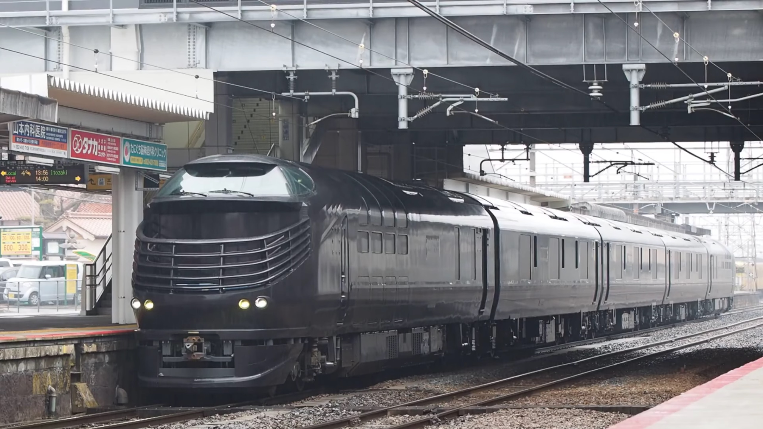 JR West Kiha 87 series Twilight Express Mizukaze hybrid DMU cruise train at Saijo Station on the Sanyo Main Line on a test run